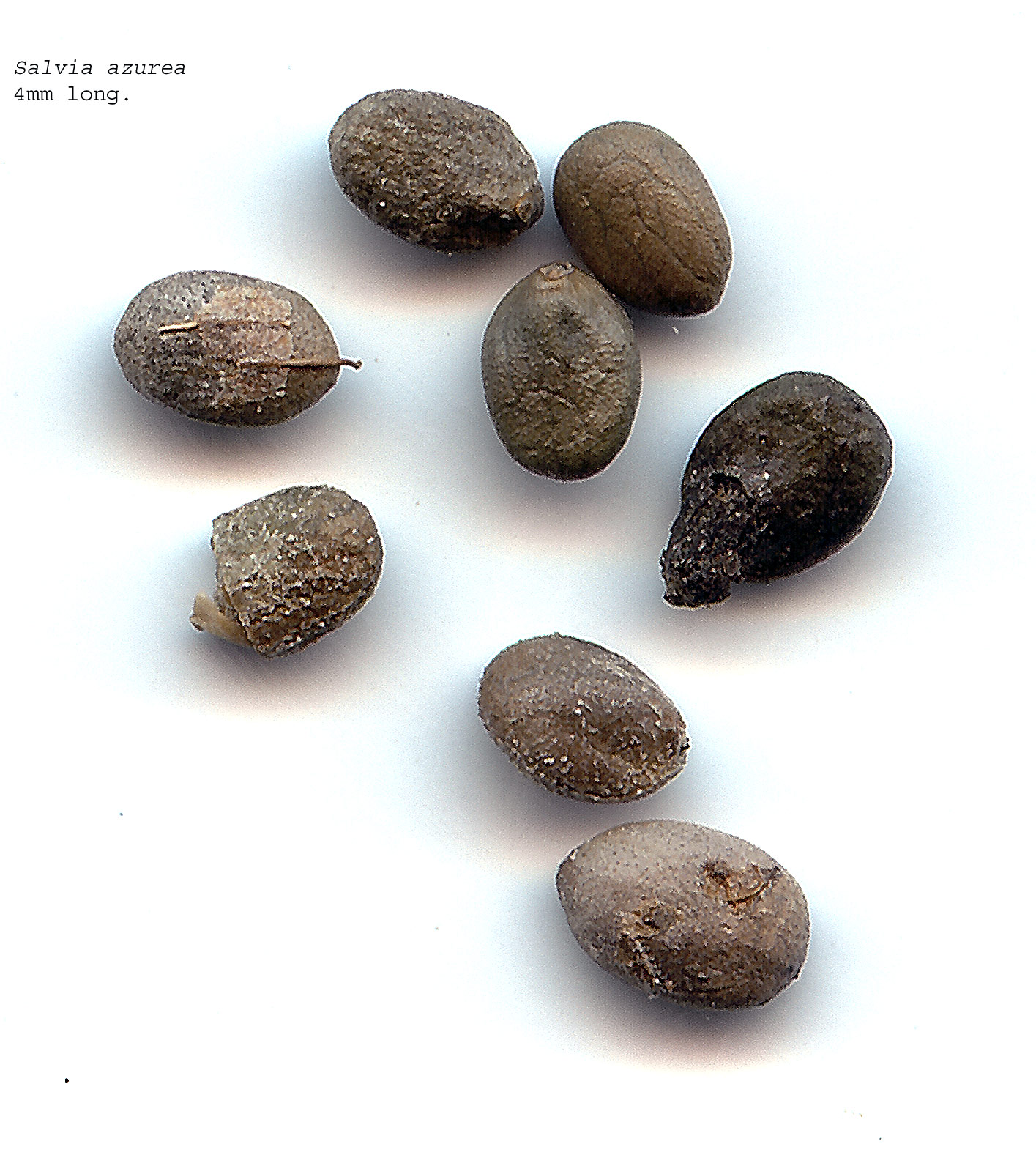 Self made scan of the seeds of Salvia azurea.